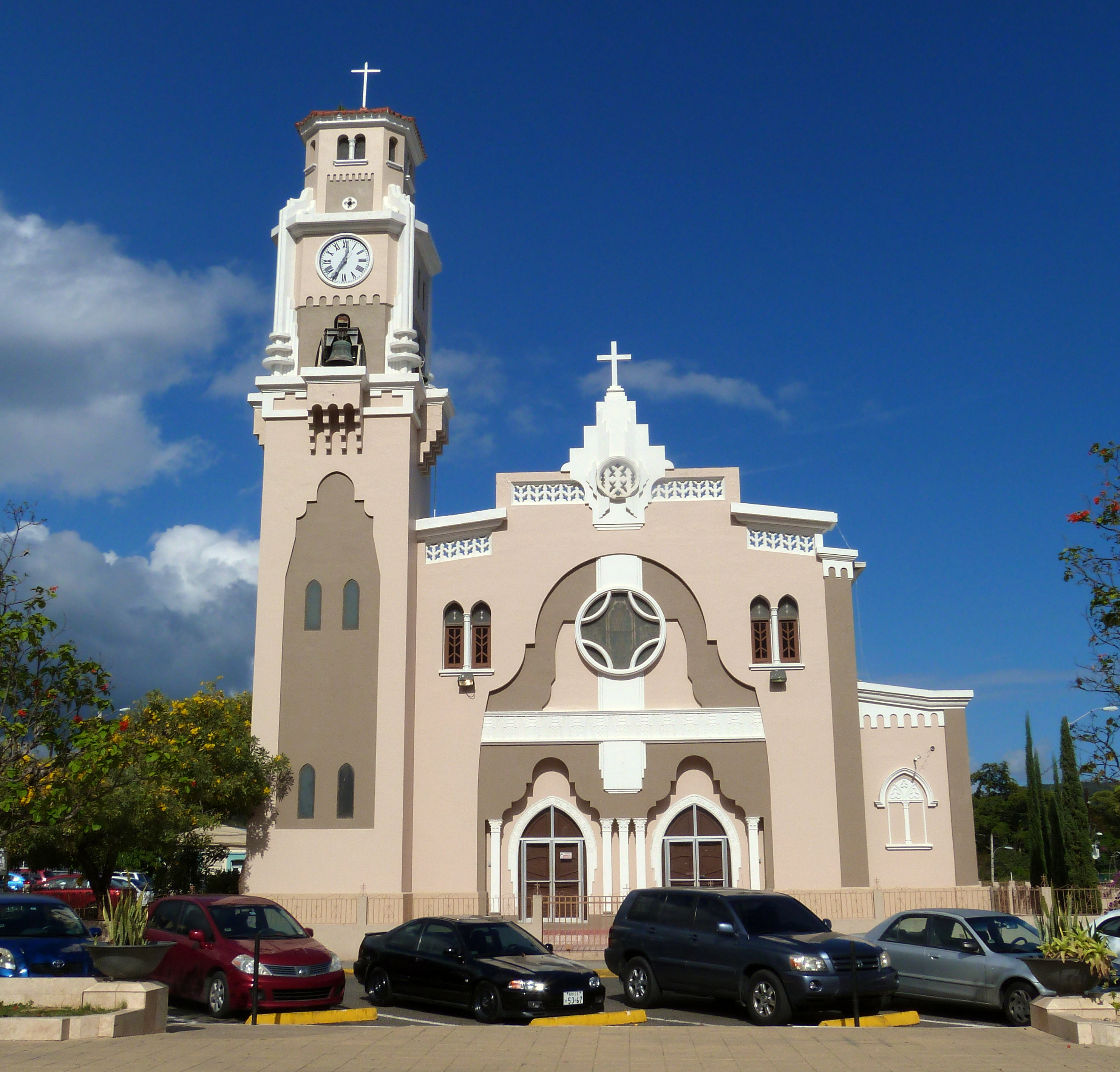 The Iglesia de Nuestra Señora del Rosario, facing the town plaza in Yauco, Puerto Rico.